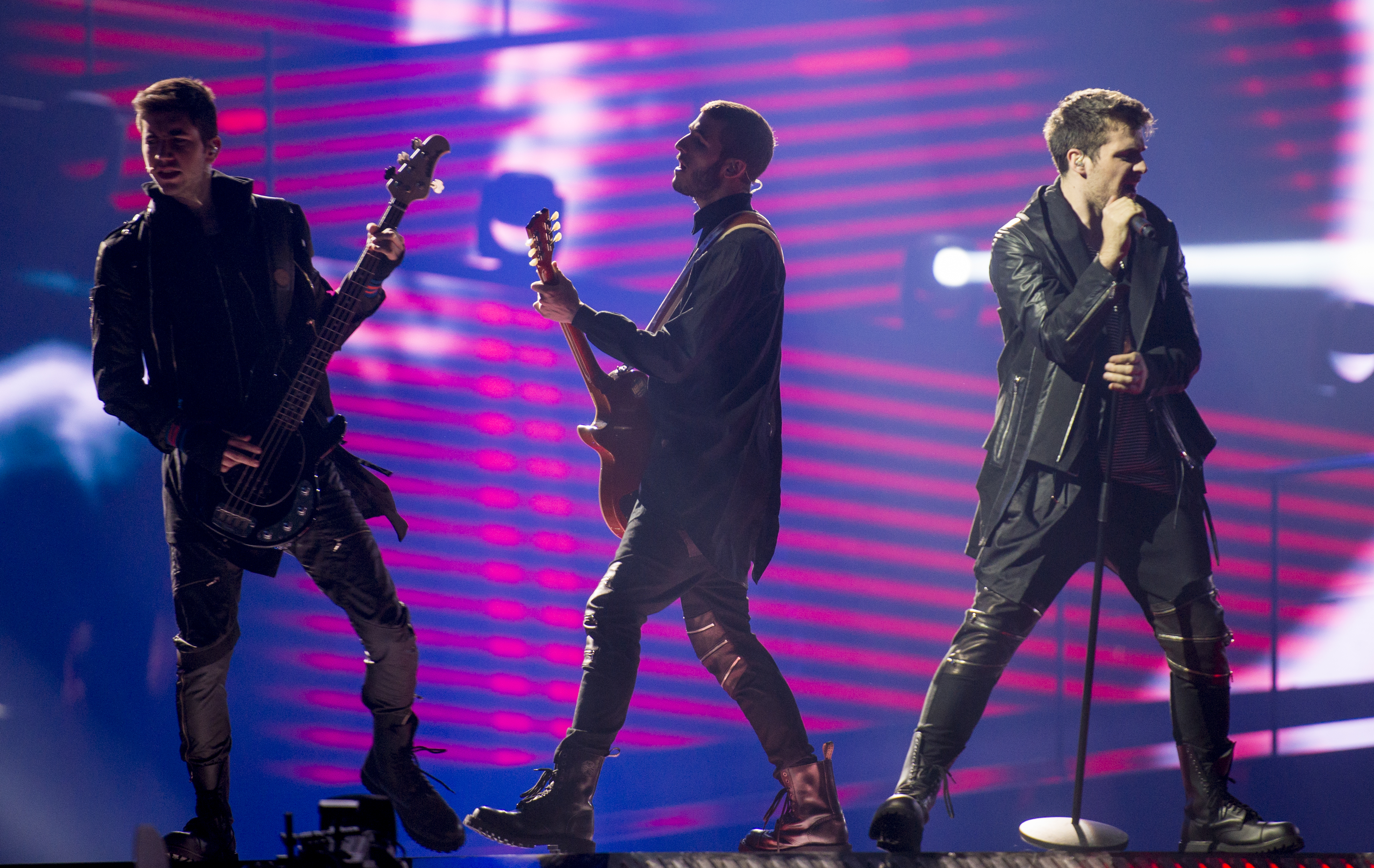 Highway representing Montenegro with the song "The Real Thing" during a rehearsal before the first semi final of the Eurovision Song Contest 2016 in Stockholm. (Help translate this text)